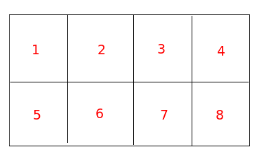 Car park in the mall.